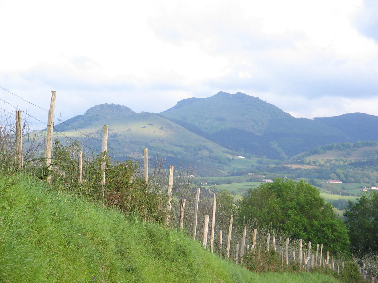 the Abaiarri Rocks and mountain Adarra